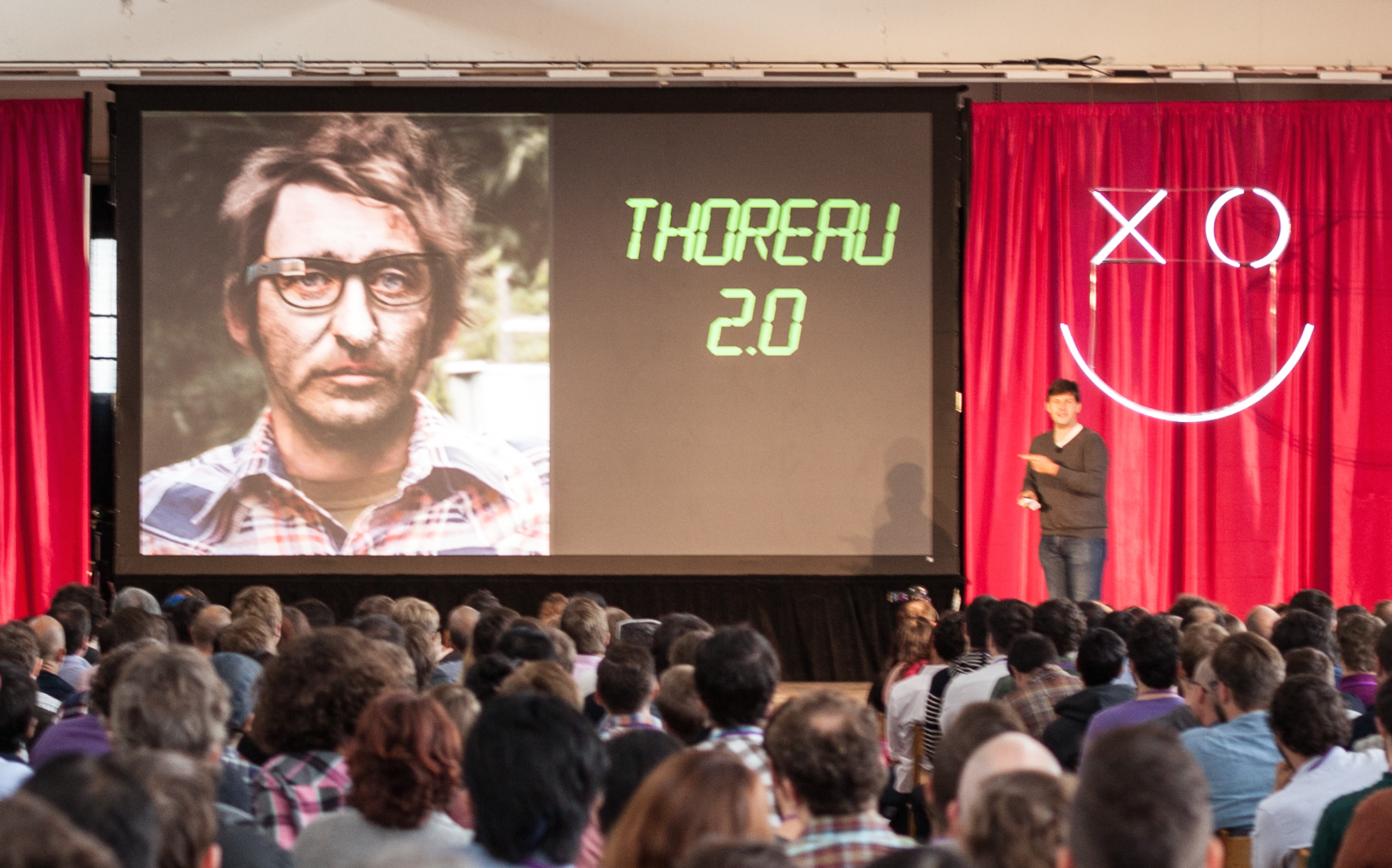 Maciej Ceglowski, "Thoreau 2.0", XOXO Festival 2013. In Portland, Oregon.